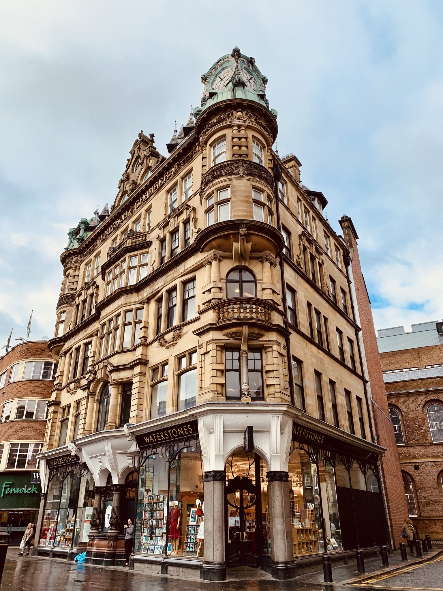 Emerson Chambers Wikidata has entry Q17552423 with data related to this item.